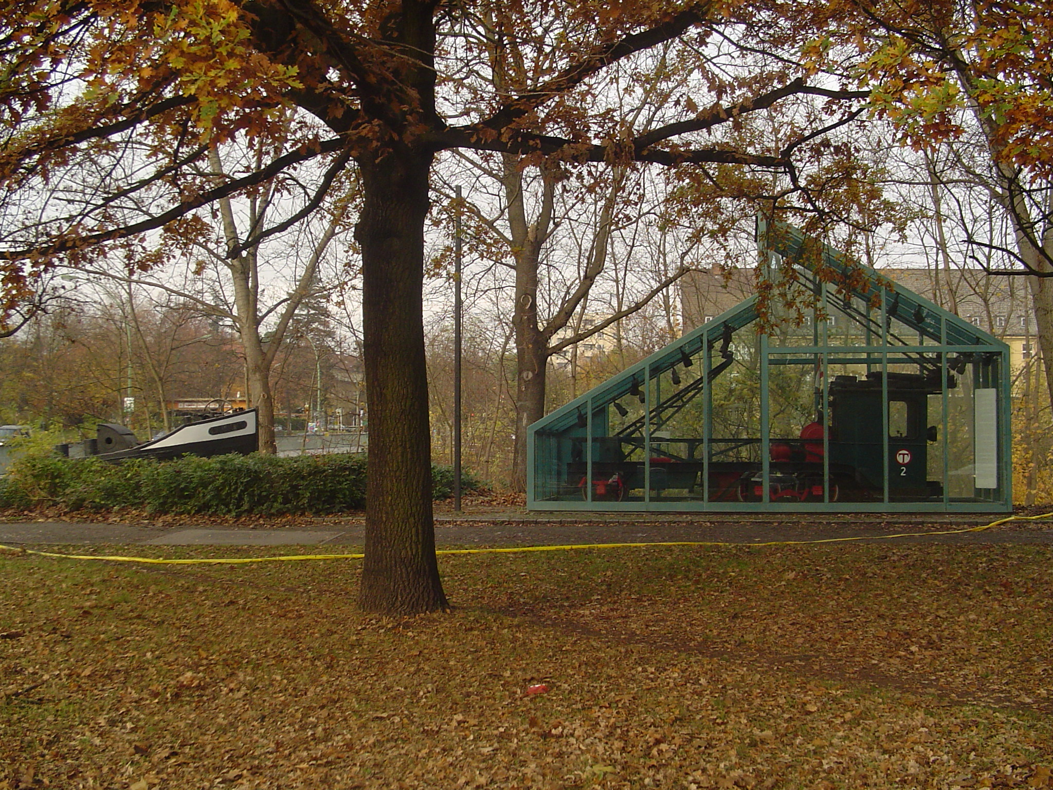 tow locomotive no. 2 (in housing) and ship's bow (left) to remind of the tow loco operation at the Teltow Channel, in Berlin, Germany